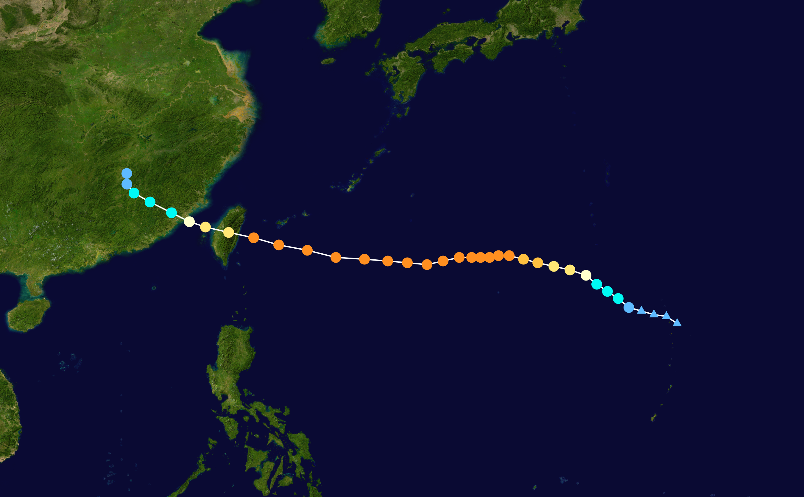 Typhoon Longwang (2005) track. Uses the color scheme from the Saffir-Simpson Hurricane Scale.